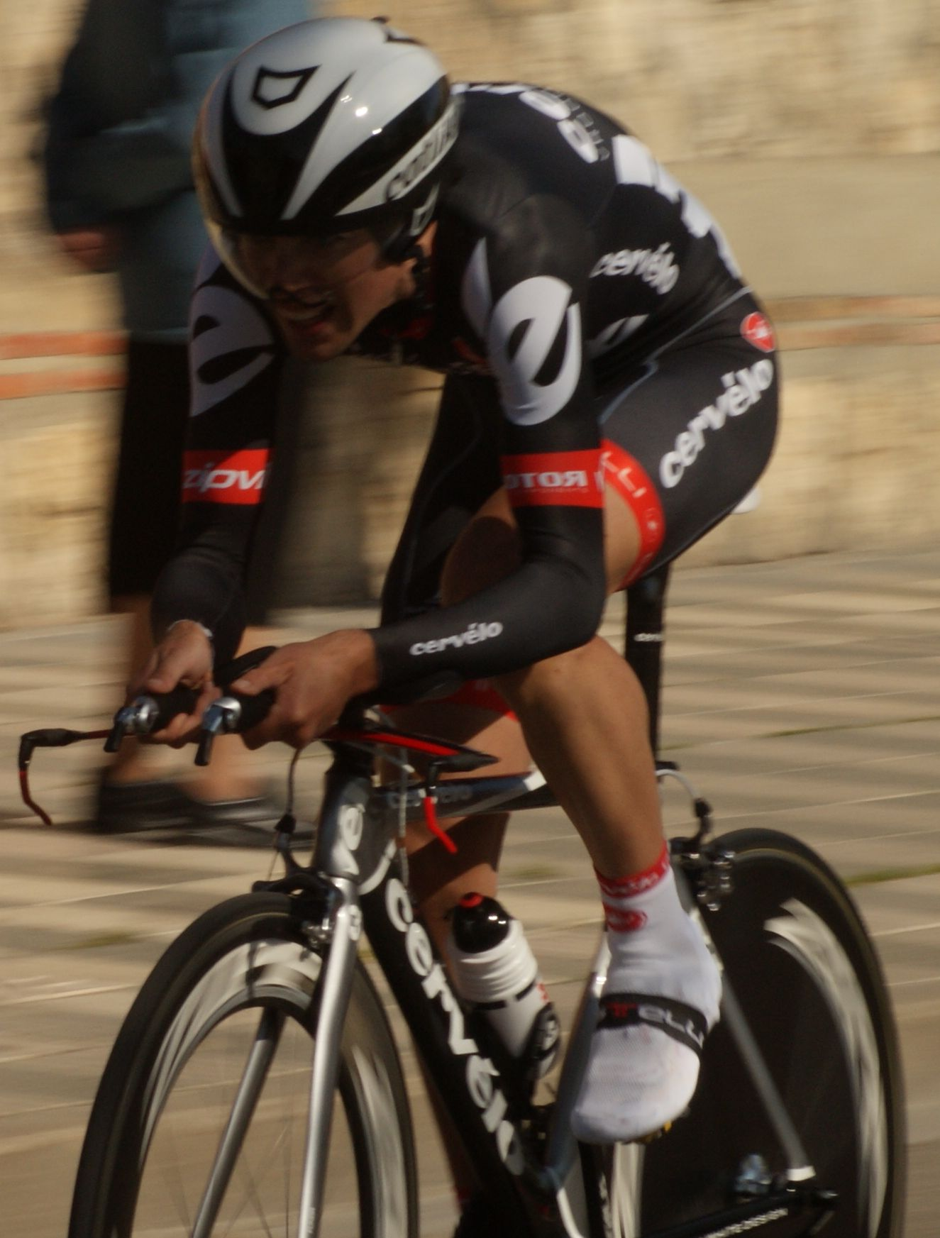 Irish cyclist Philip Deignan in Palencia (Spain) during the Vuelta a Castilla y León.